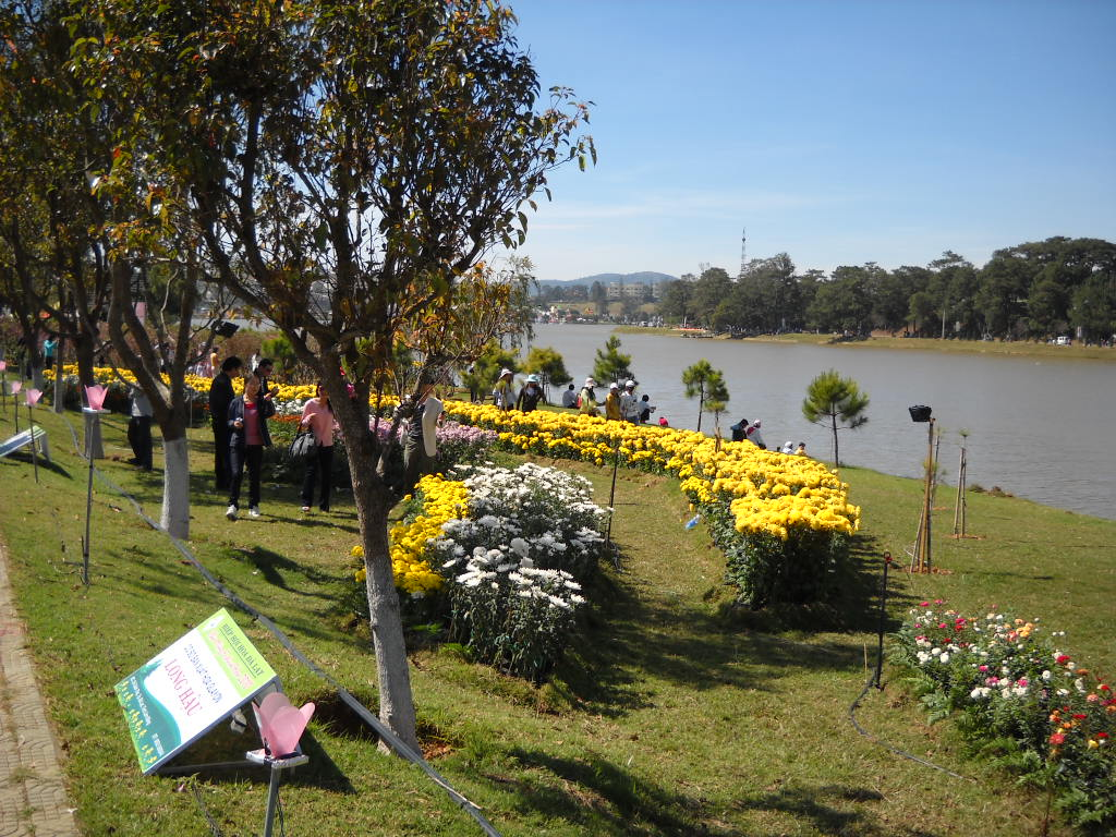 Xuan Huong Lake